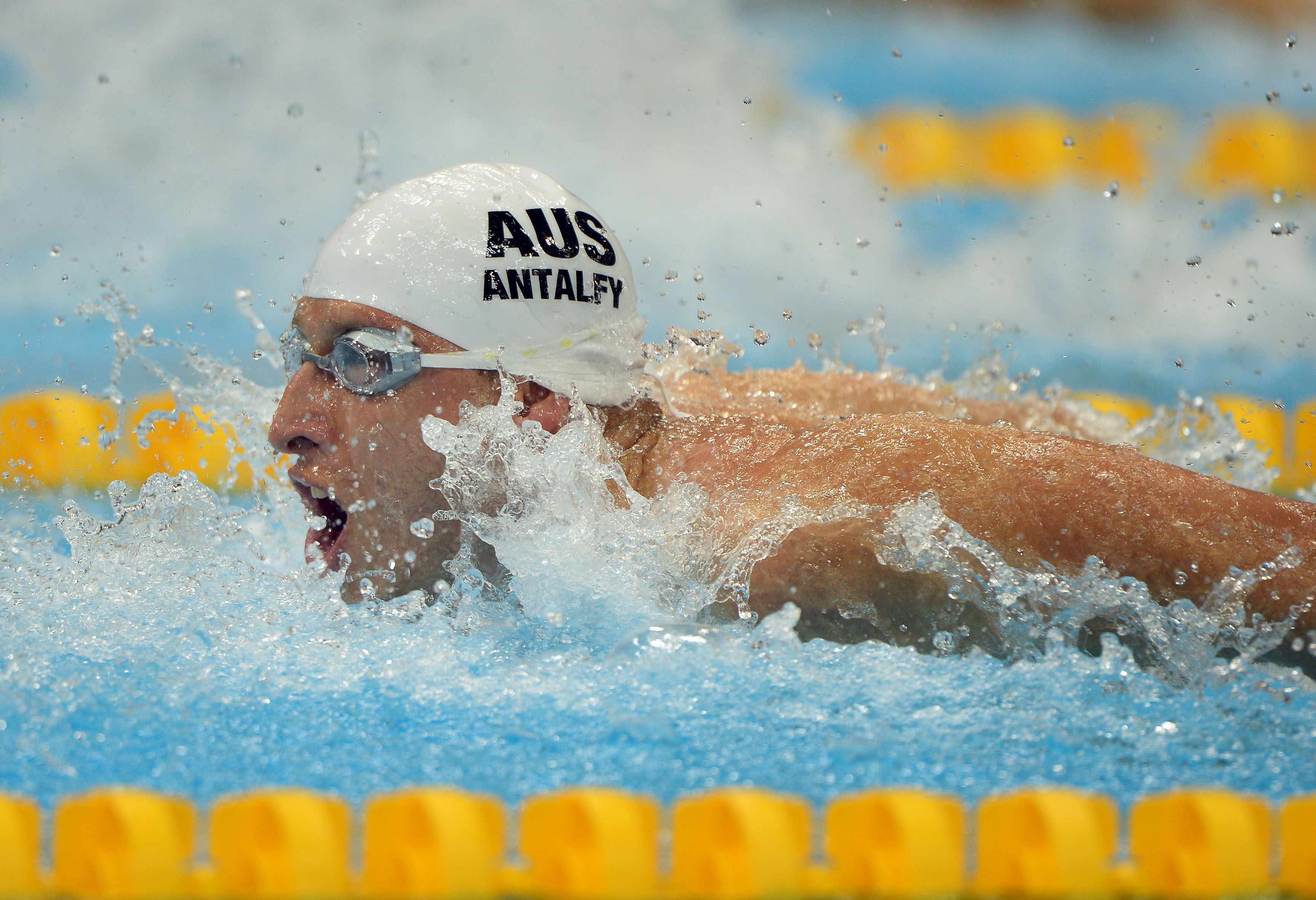 Photograph of Australian Paralympic team member Tim Antalfy at the 2012 Summer Paralympic Games in London